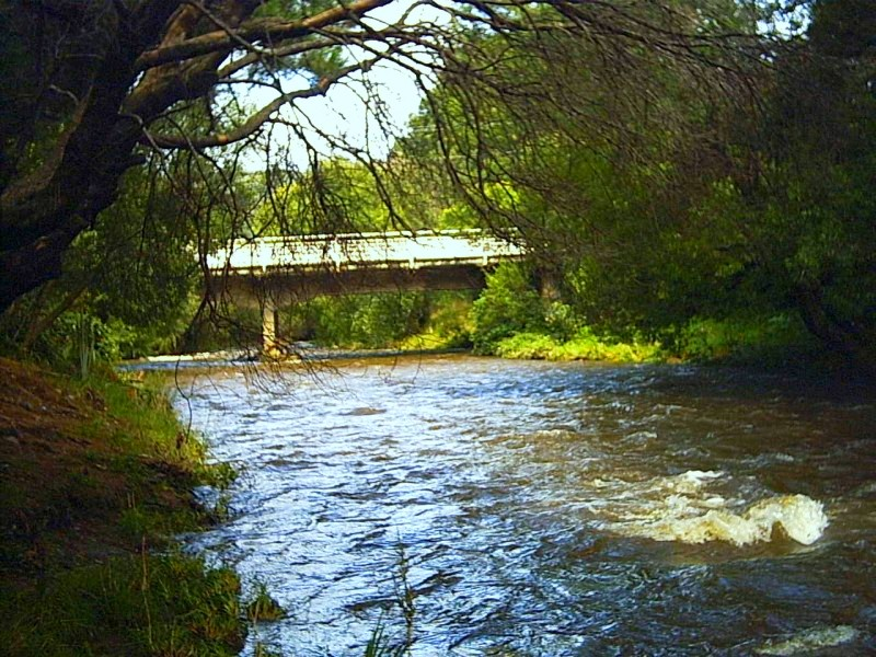 Photo of the Wainui Bridge - slightly brown from rainfall the night before